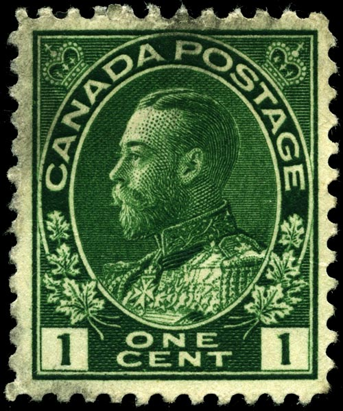 Canada 1-cent stamp of 1912